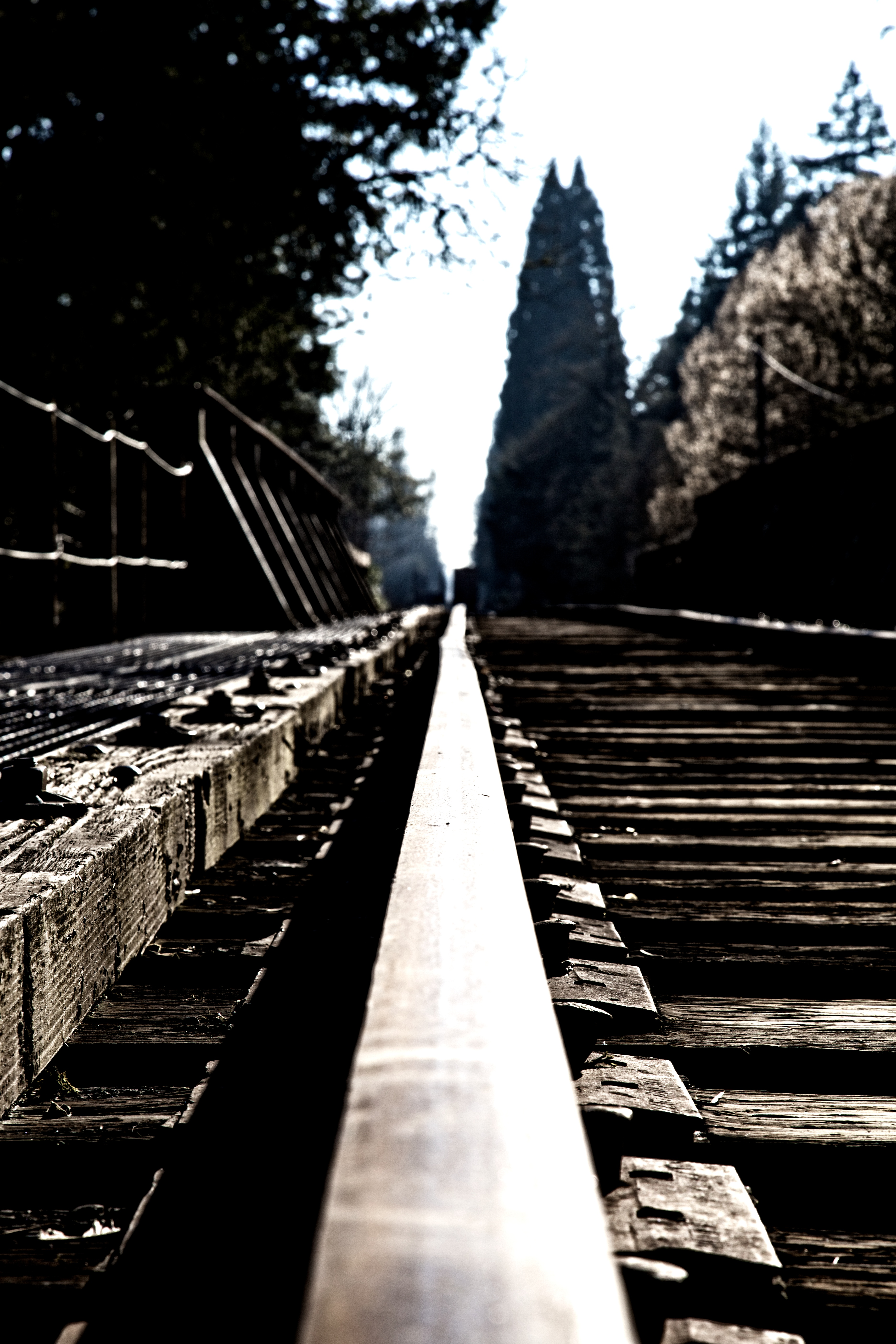 Bleach bypass processed photograph